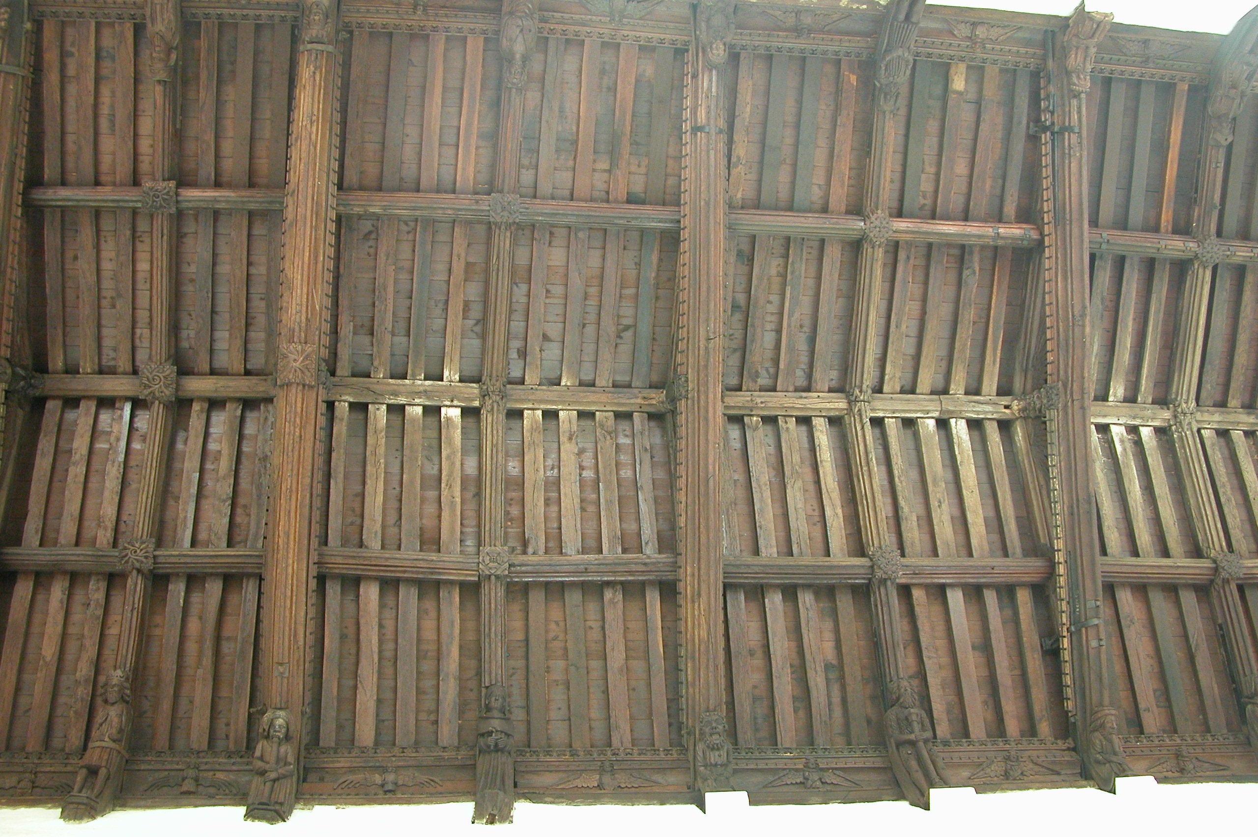 All Saints Church Wing, Buckinghamshire, England - Anglo Saxon Church